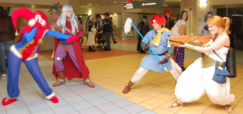 Chrono cosplay at Ohayocon 2008.